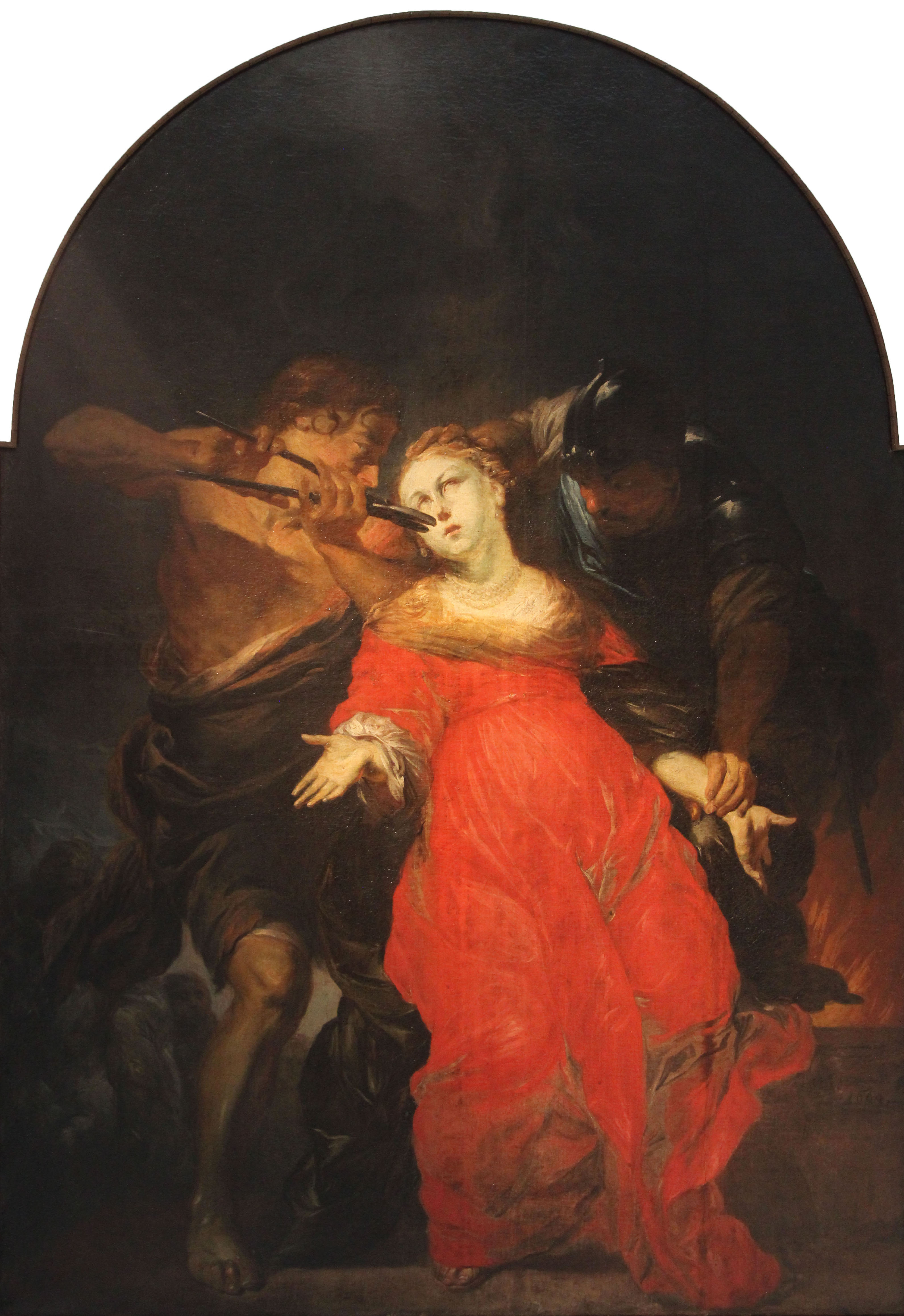 Michael Willman The Matyrdom of St. Apollonia (1664) from National Museum in Wroclaw (originally in Virgin Mary church in Wrocław).